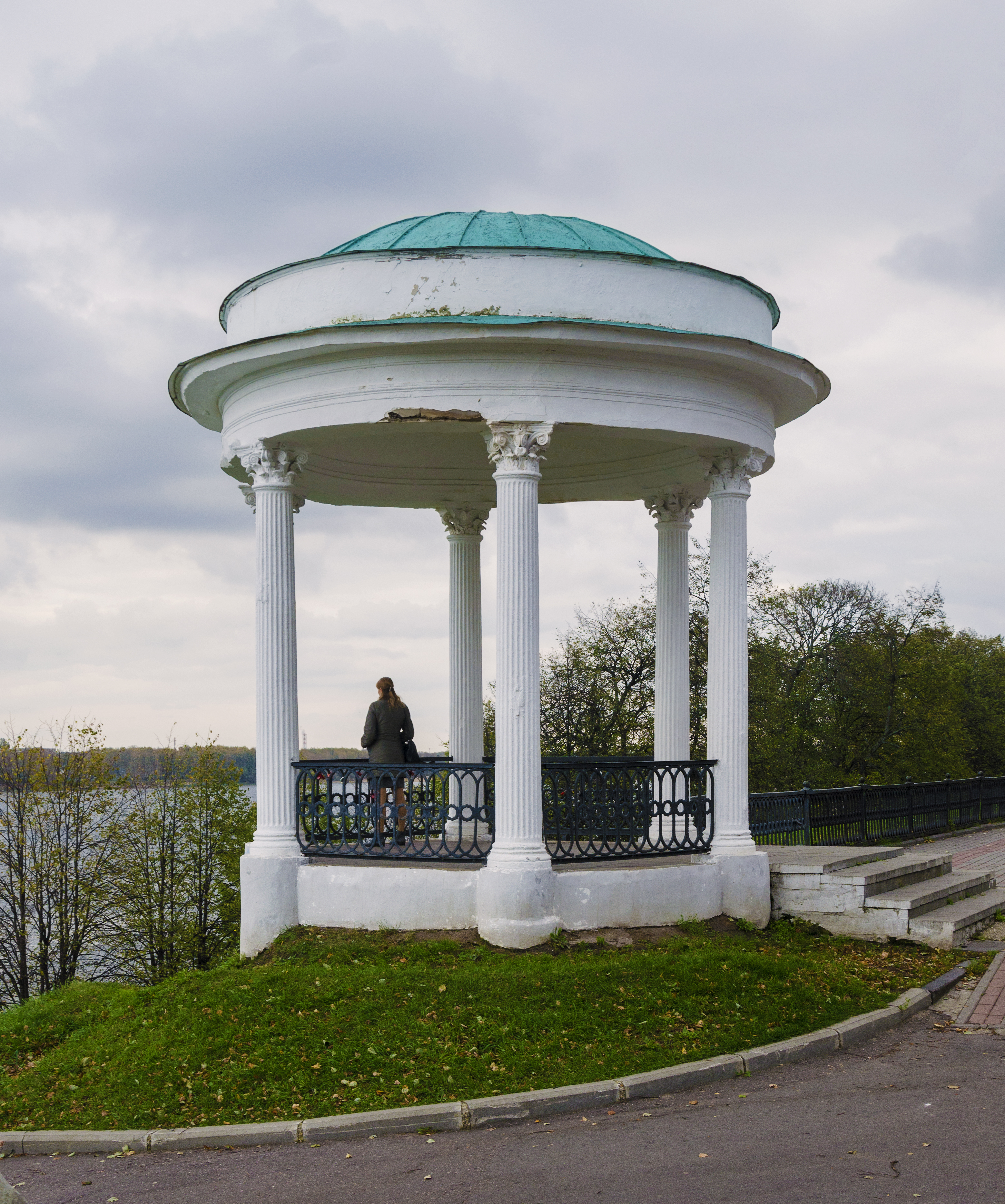 Rotunda at Volzhskaya Embankment in Yaroslavl